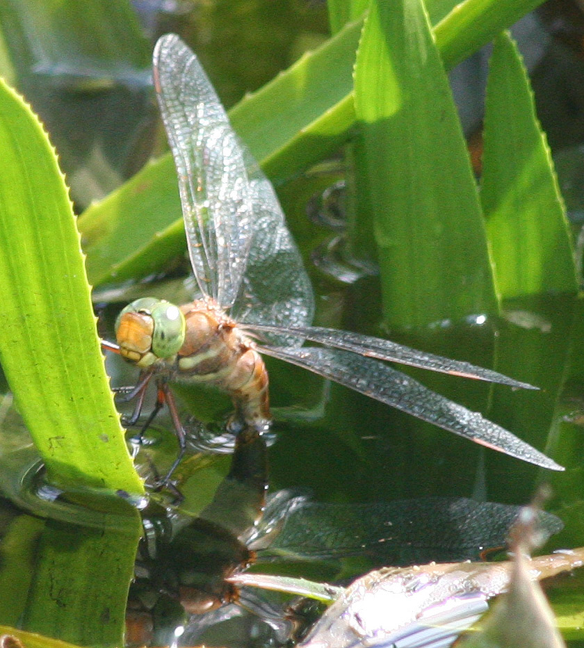 taken at Strumpshaw Fen, Norfolk 12/08/07